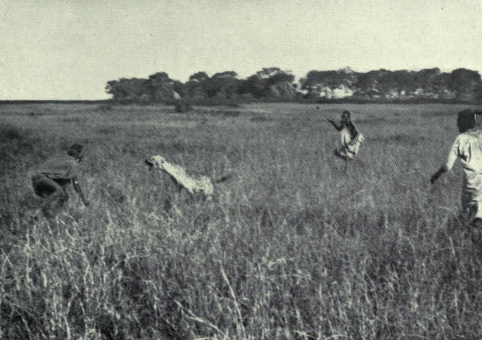 Spotted hyena attacked by Maasai warriors